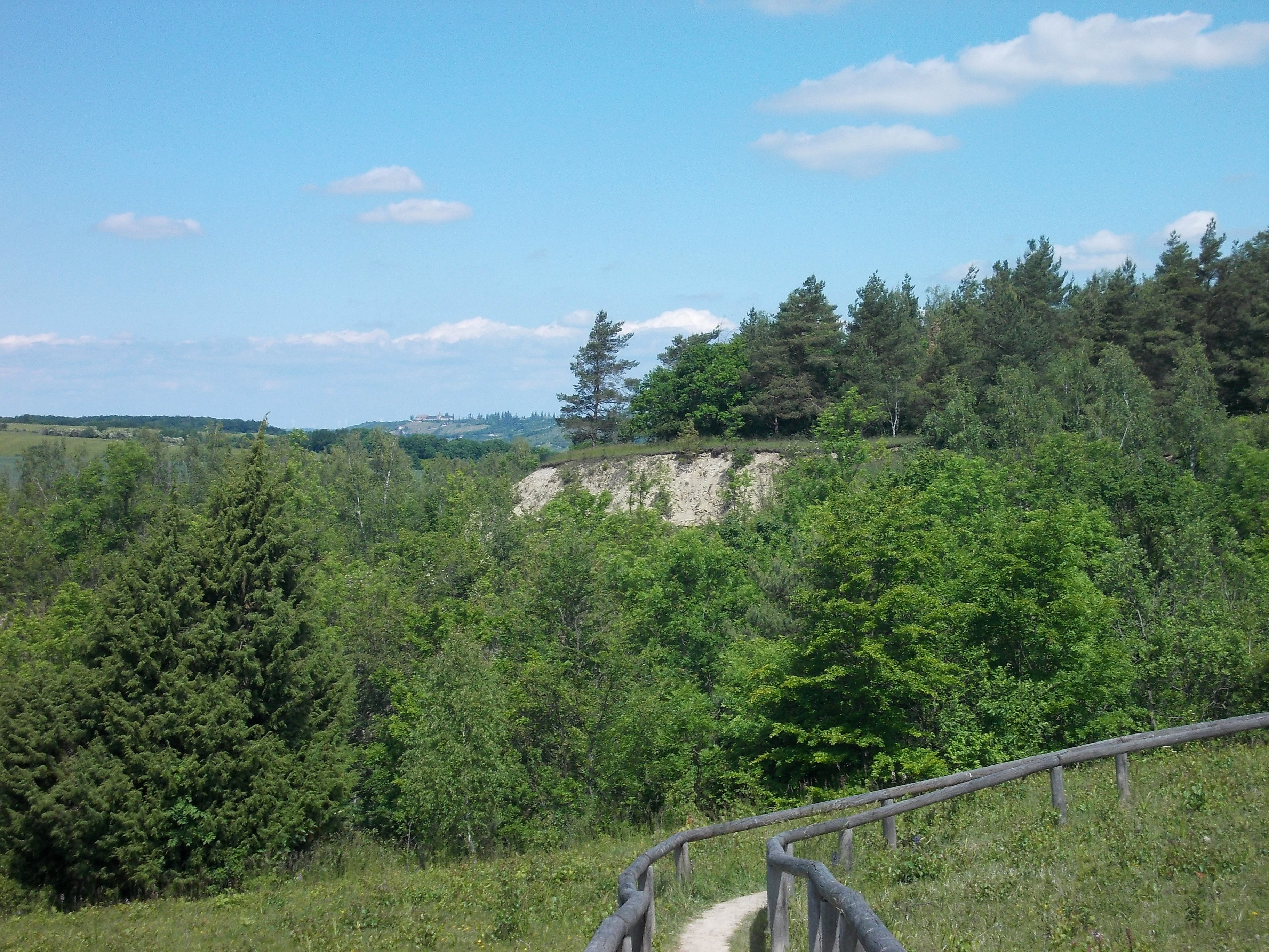 On the orchid trail in the Tote Täler ("Dead Valleys") nature reserve in the Burgenlandkreis (Saxony-Anhalt)